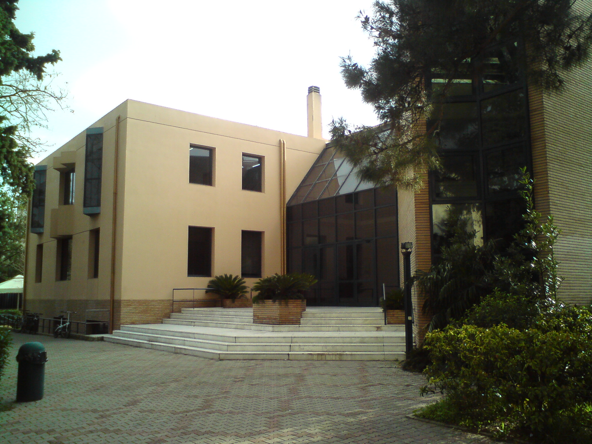 Built in 2000 this building hosts the university library, info center, the ceremony hall and also classes, labs and offices mostly of the Geography Department.